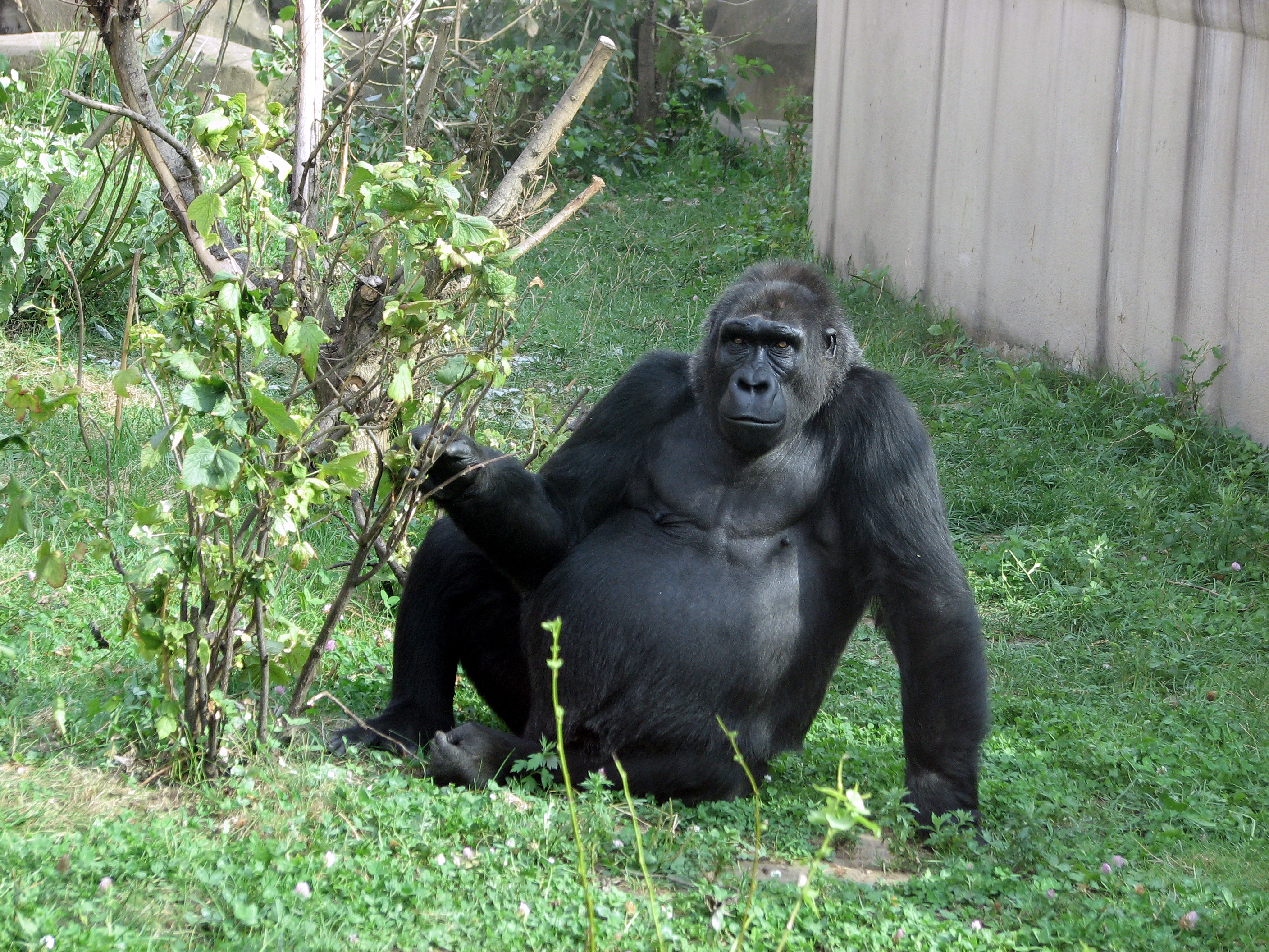 Moscow Zoo. Western Gorilla (Gorilla gorilla)